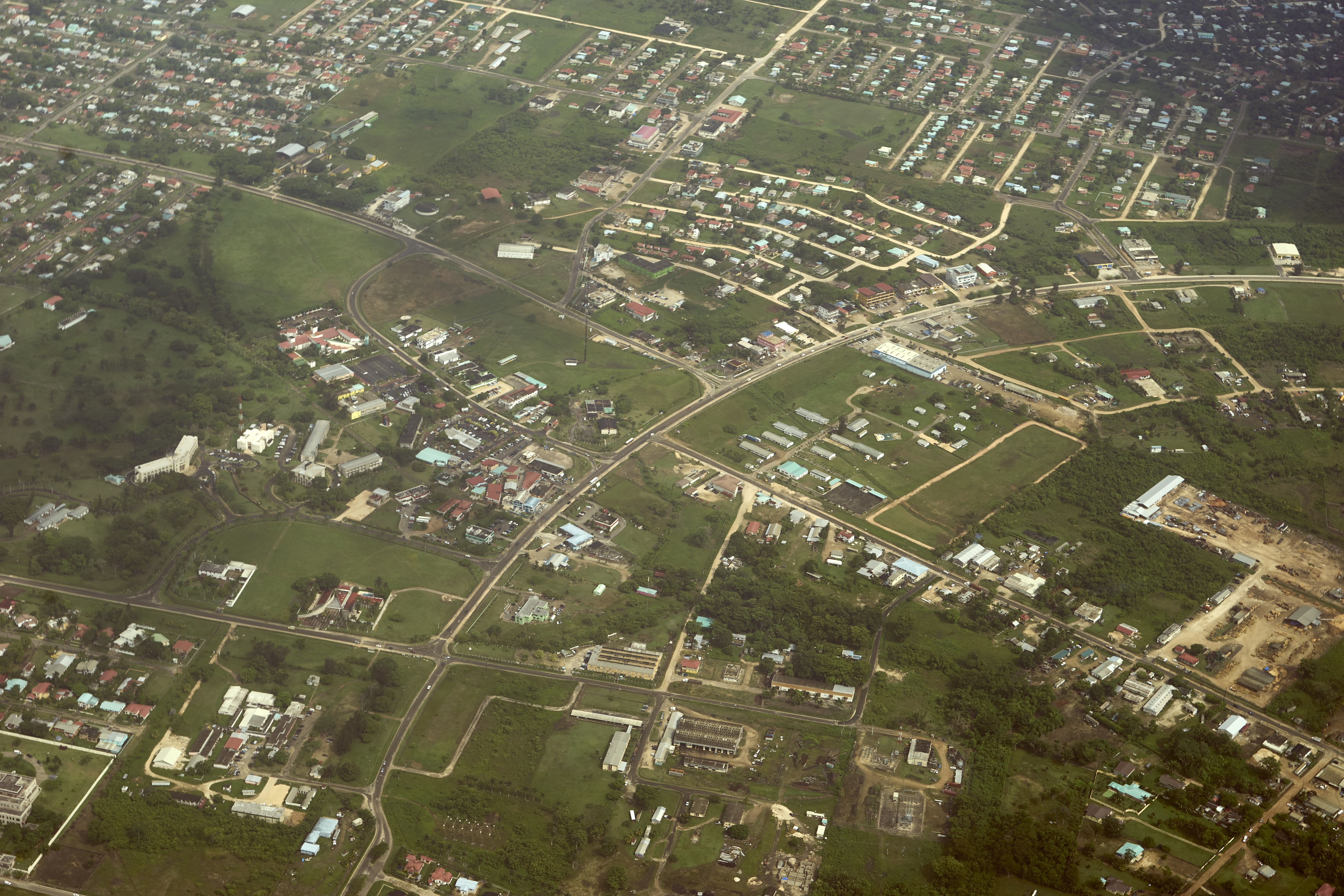 Aerial of Belize, Belmopan The making of this document was supported by the Community-Budget of Wikimedia Germany.